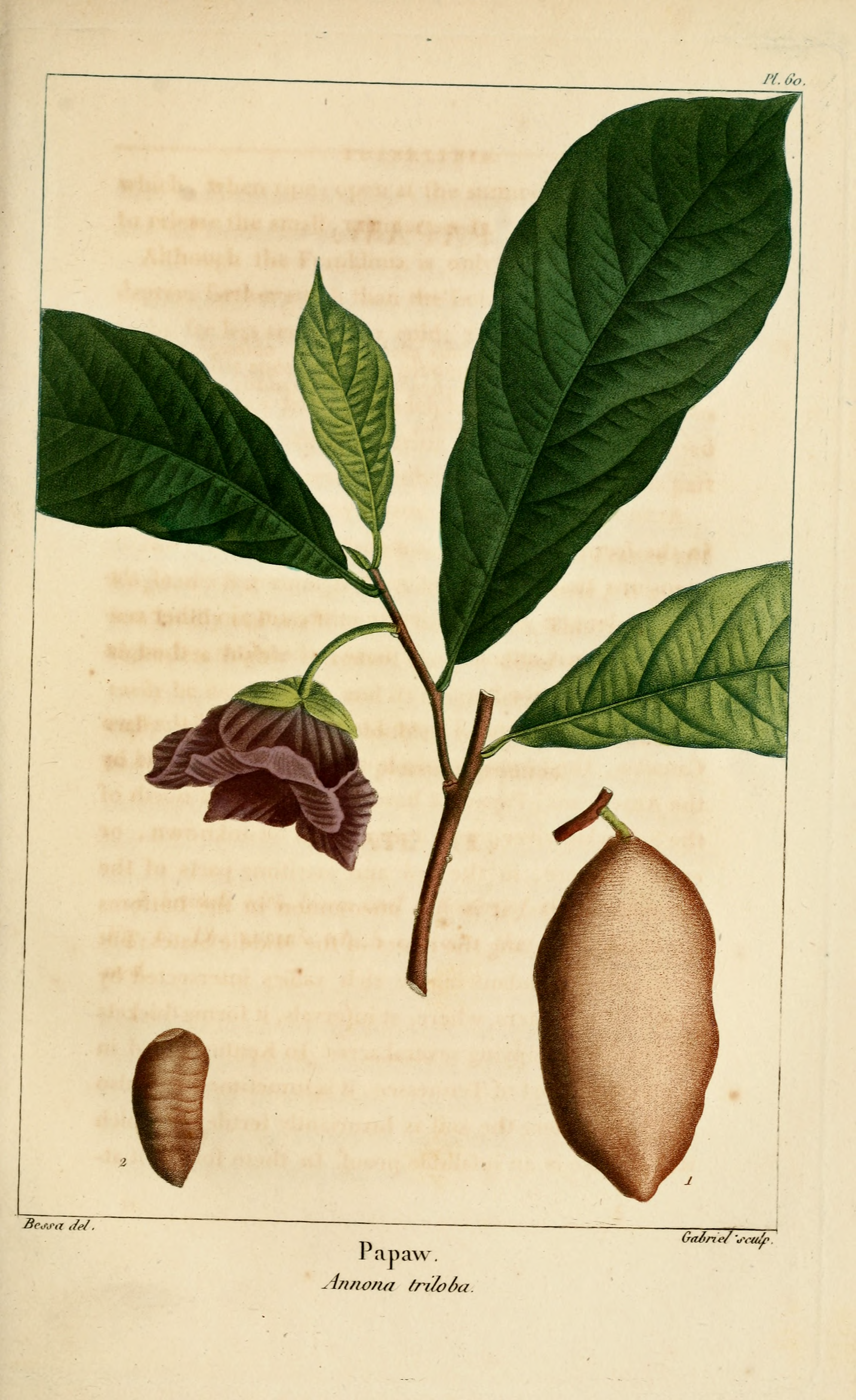 Plate from The North American Sylva